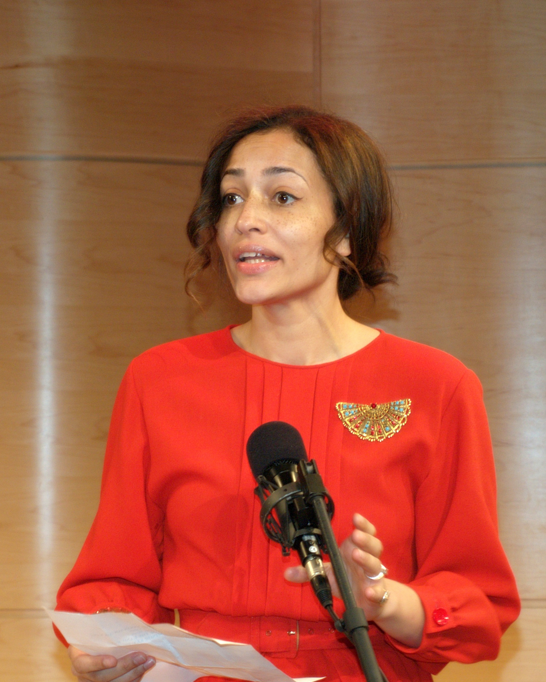 Zadie Smith announcing the five 2010 National Book Critics Circle finalists in fiction.